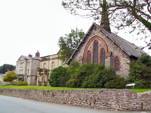 Lluesty Chapel Constructed in 1884, the chapel is in the grounds of the Lluesty Hospital(now closed) behind and to the left of the chapel.